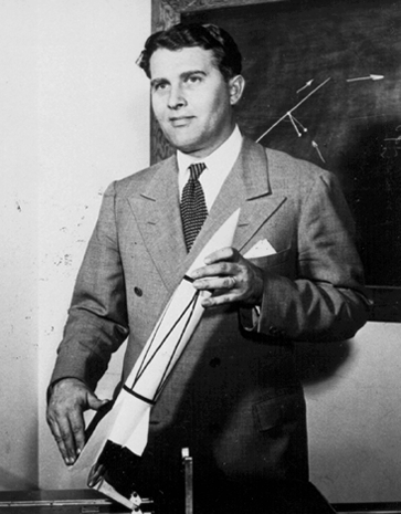 There is no date for this photo. It shows a young Dr. Von Braun holding a model of a V-2 rocket.